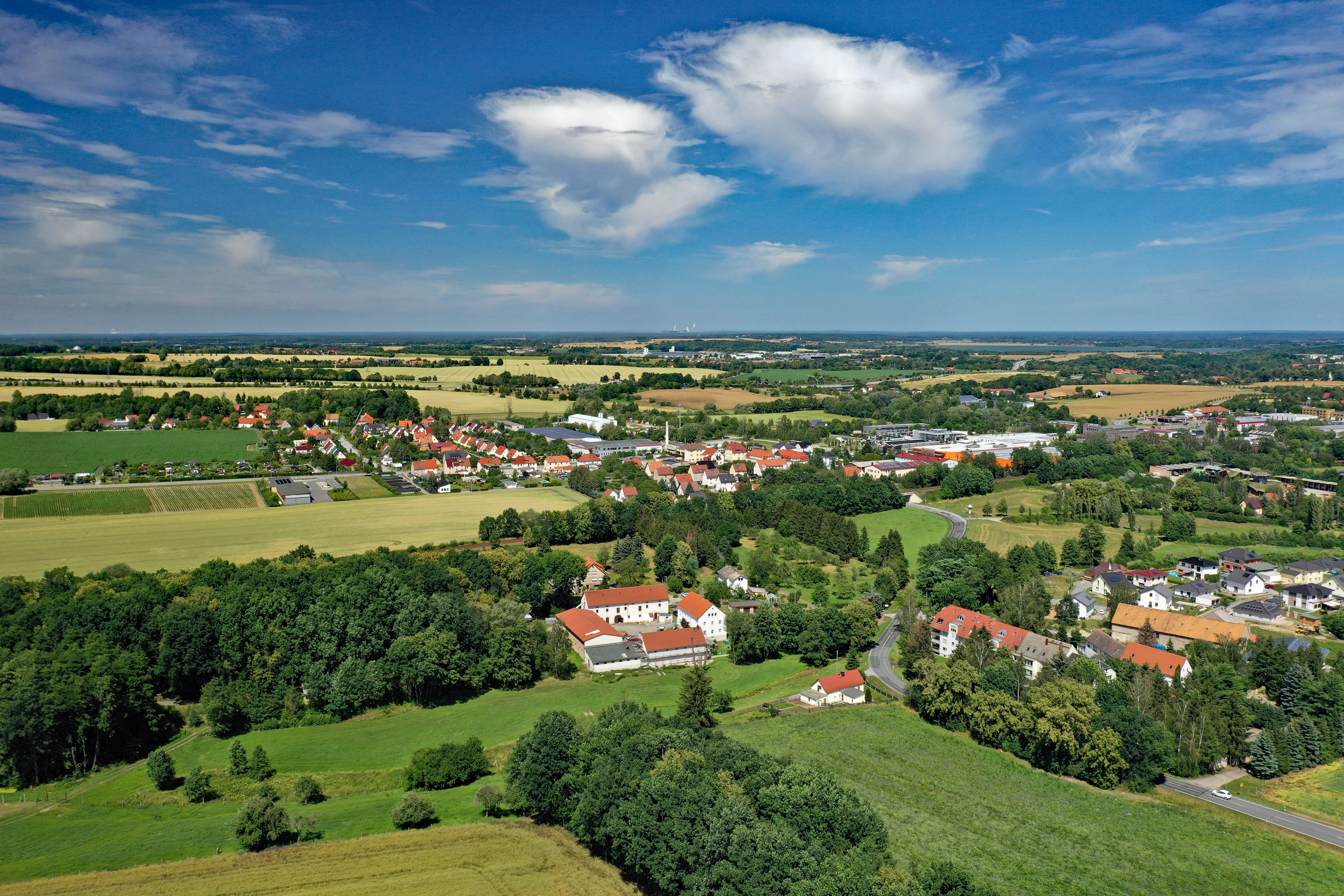 Stiebitz (Bautzen, Saxony, Germany) Hornjoserbsce: Powětrowy wobraz Ratarjec a Sćijec